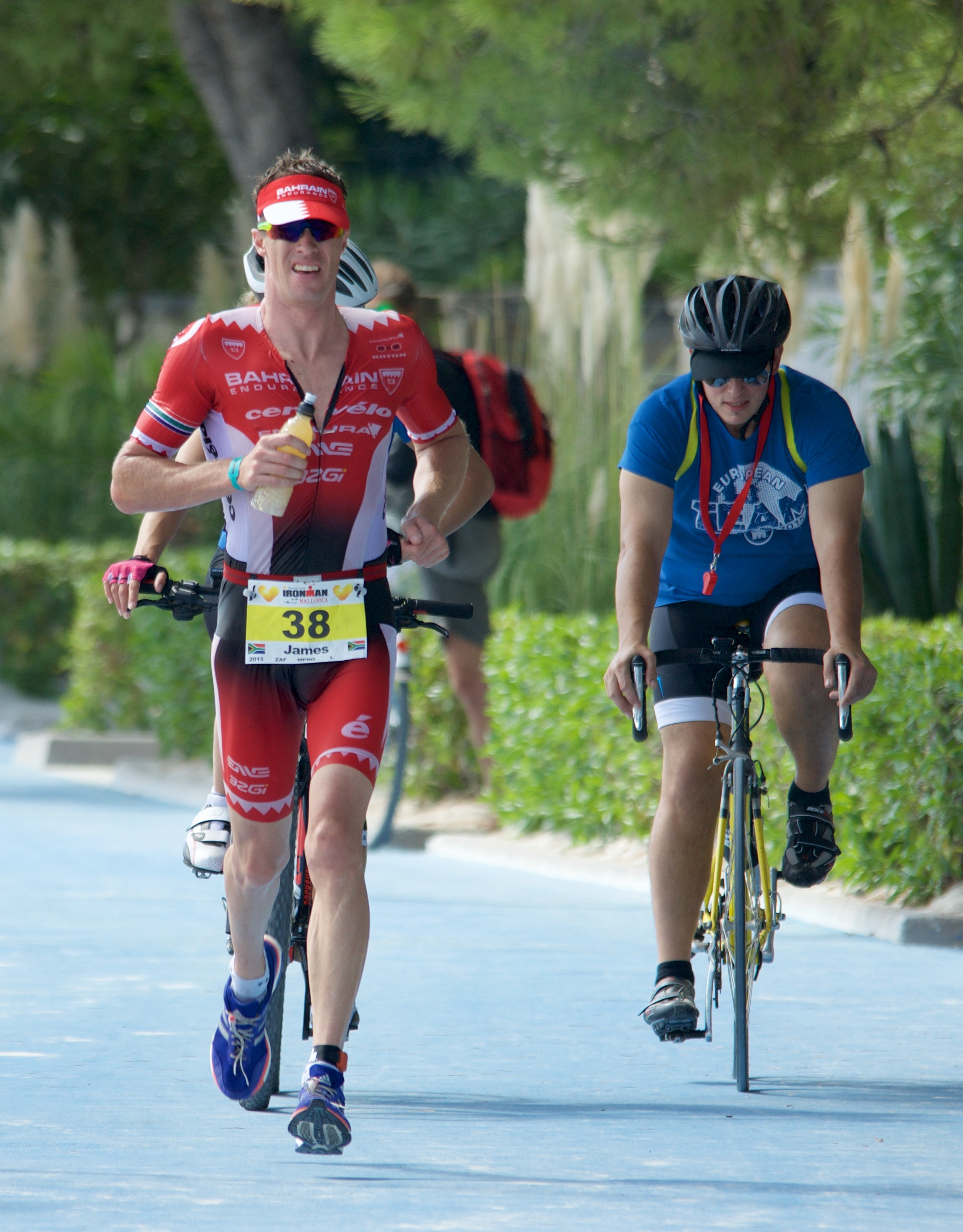 James Cunnama, Ironman Mallorca 2015